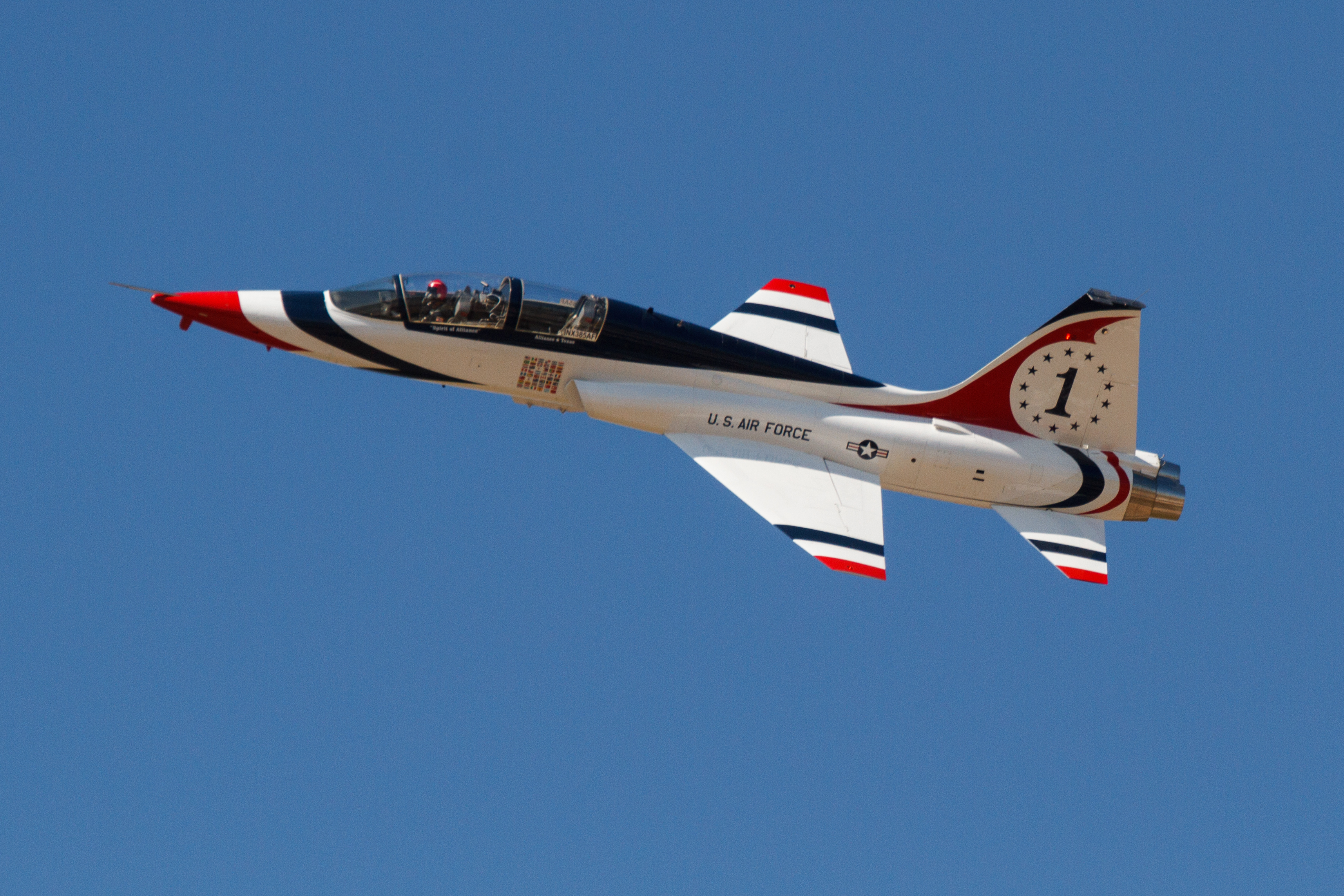 A T-38 Talon, in a Thunderbirds scheme, performing at the Alliance Air Show in Fort Worth, Texas in 2014.